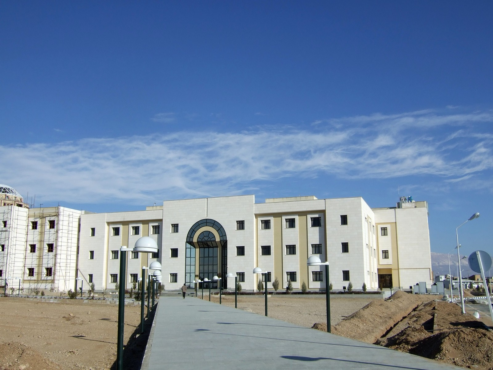 University building in Damghan, Iran.